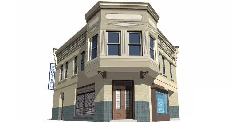 2D image, exported from a 3D model, of a building that once existed, until 1976, on the now demolished RKO Studios backlot called Forty Acres. Atypical of most sets at 40 Acres, this structure was a complete building, with a practical roof and some interior sets on the main floor. The building was used as a film set and appeared on television's The Andy Griffith Show as Walker's Drug Store. It was featured in the 1949 film noir classic The Set-Up as the Hotel Cozy; and appeared again, although not as extensively, on Star Trek's episode of Miri as the Rusk Hotel. Showing the west entrance of the building as it once stood, the 3D model was constructed in SketchUp 6.0 in 2008 by Bill Wrigley.